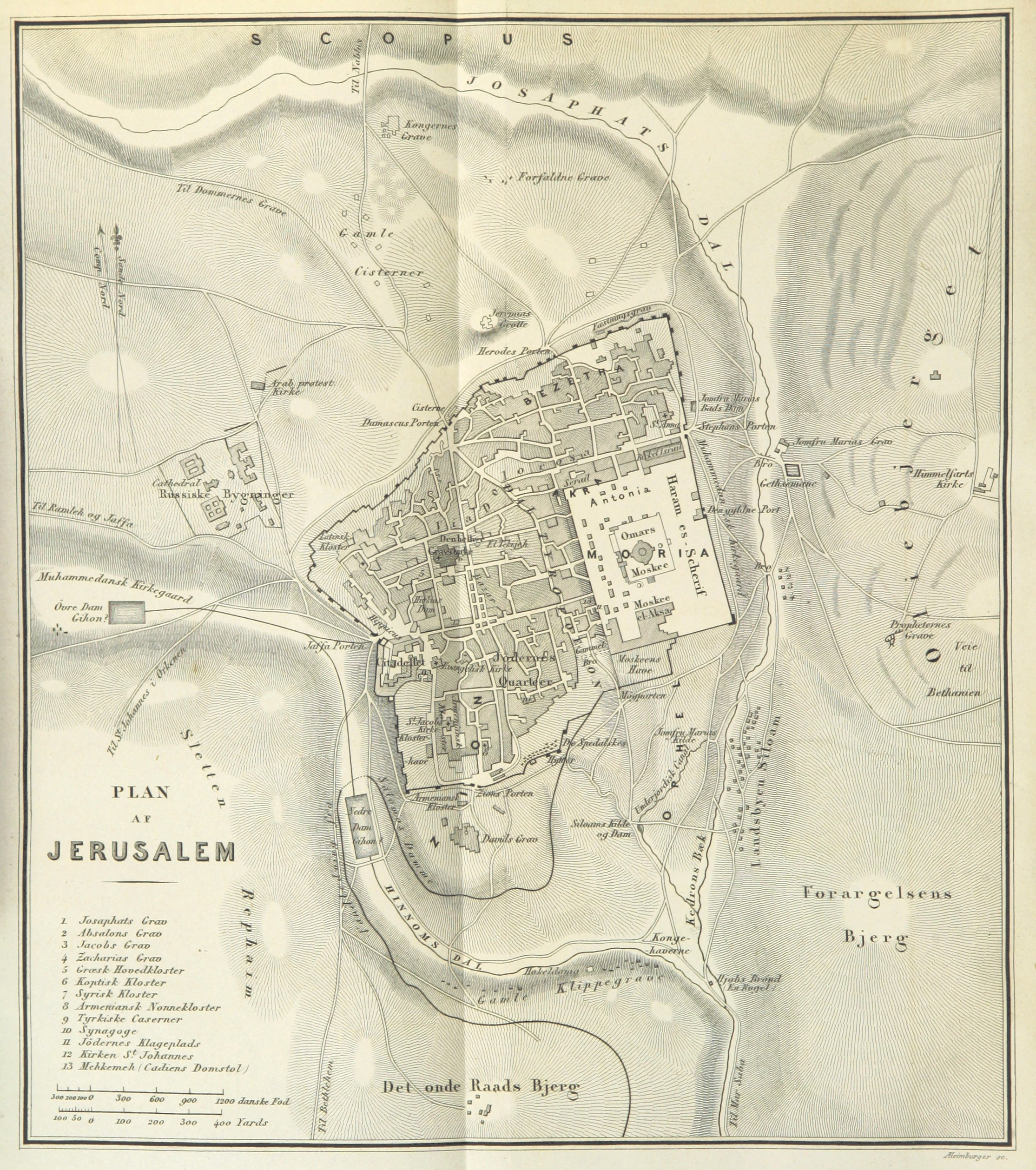 View this map on the BL Georeferencer service. Image taken from: Title: "En Pilgrimsfærd i det Hellige Land ... Med et Kort over Jerusalem og 31 Afbildninger" Author: SCHARLING, Carl Henrik. Shelfmark: "British Library HMNTS 10077.g.1." Page: 8 Place of Publishing: Kjøbenhavn Date of Publishing: 1876 Issuance: monographic Identifier: 003269932 Explore: Find this item in the British Library catalogue, 'Explore'. Download the PDF for this book (volume: 0) Image found on book scan 8 (NB not necessarily a page number) Download the OCR-derived text for this volume: (plain text) or (json) Click here to see all the illustrations in this book and click here to browse other illustrations published in books in the same year. Order a higher quality version from here. This file has been provided by the British Library from its digital collections. This file is from the Mechanical Curator collection, a set of over 1 million images scanned from out-of-copyright books and released to Flickr Commons by the British Library. Please add the Flickr page URL for the image Please add the British Library system number for the book This tag does not indicate the copyright status of the attached work. A normal copyright tag is still required. See Commons:Licensing.